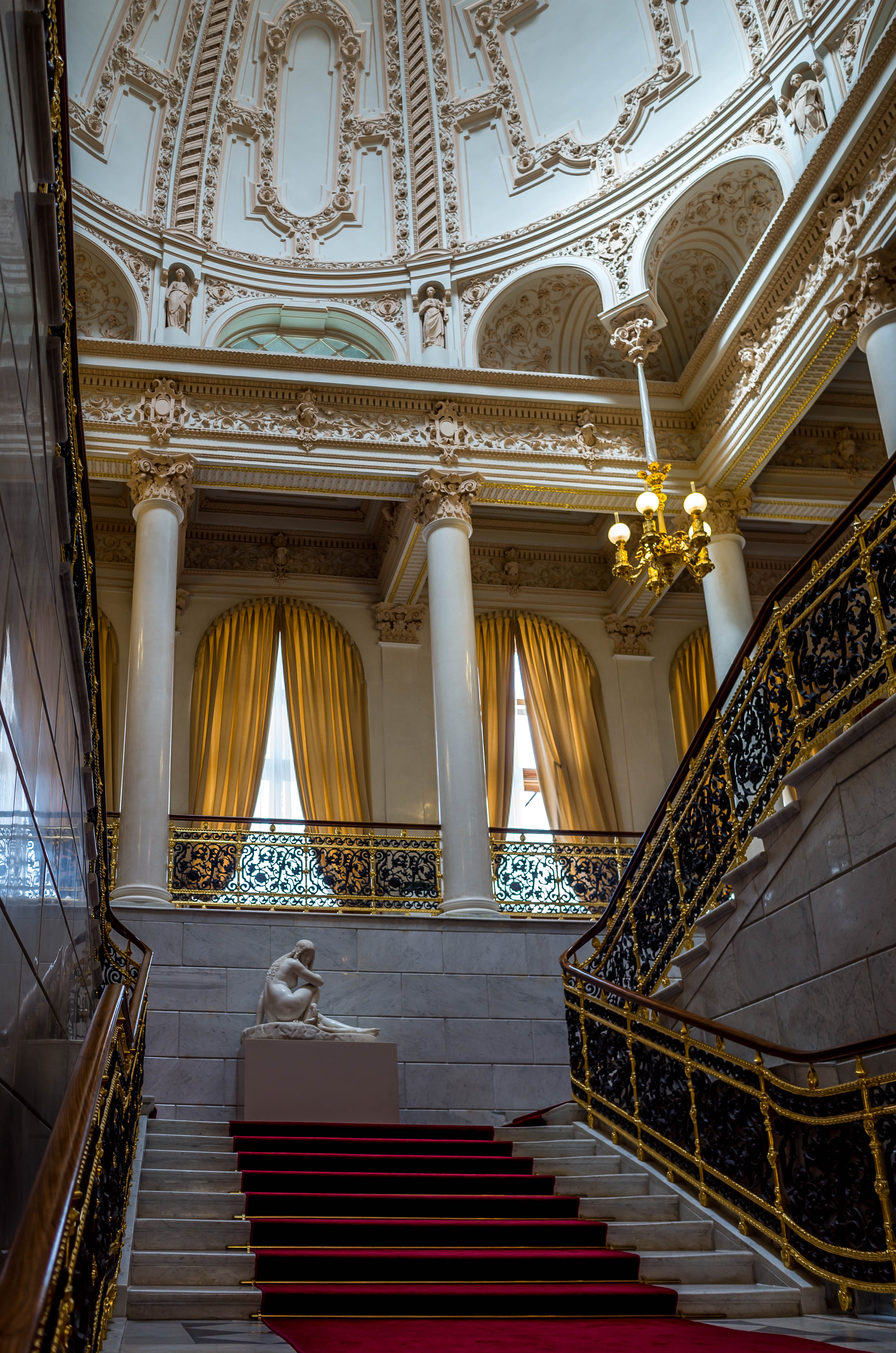 Entrance staircase of the Faberge Museum